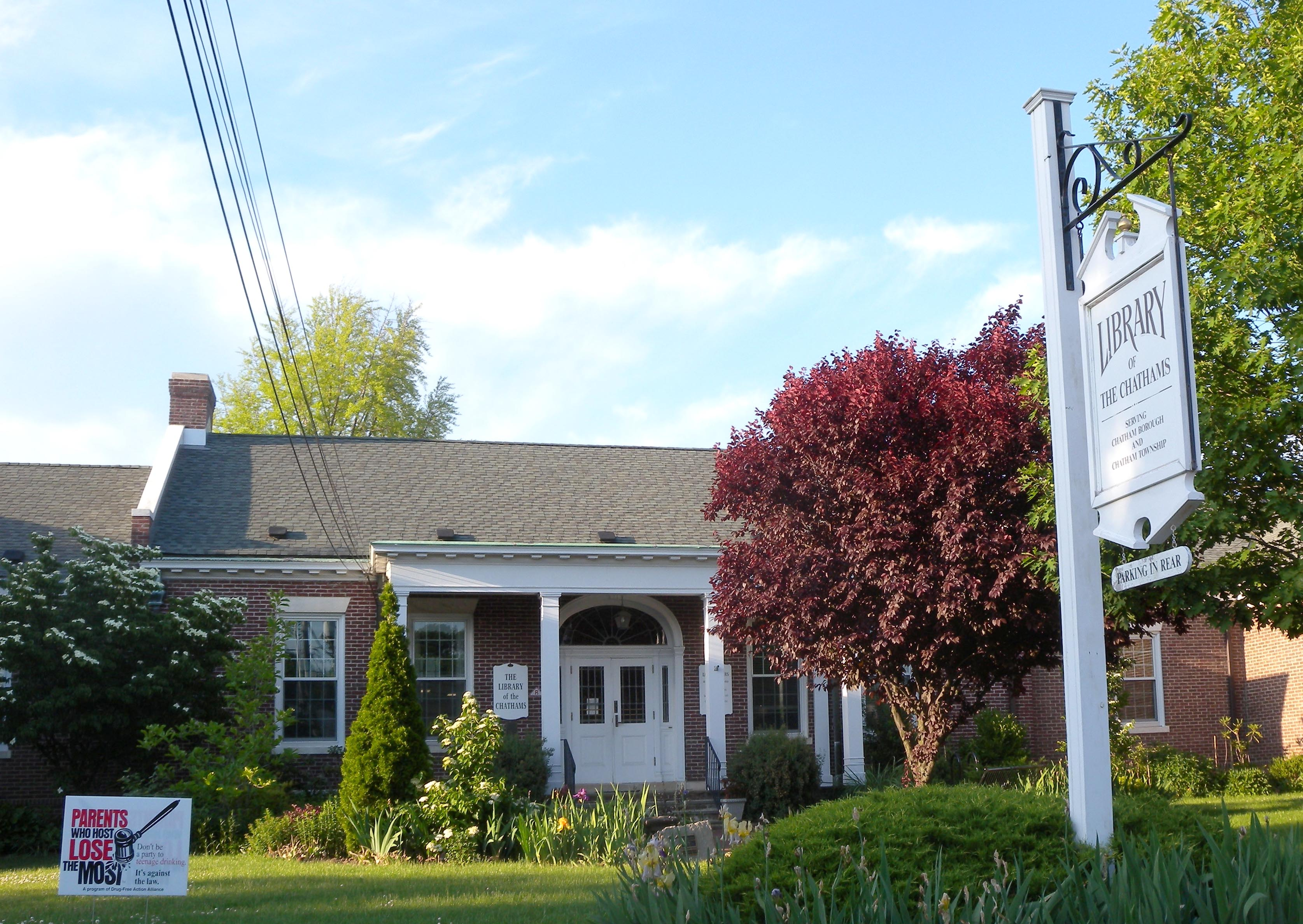 Lookng north from Main Street at Library of the Chathams on a mostly sunny late afternoon.